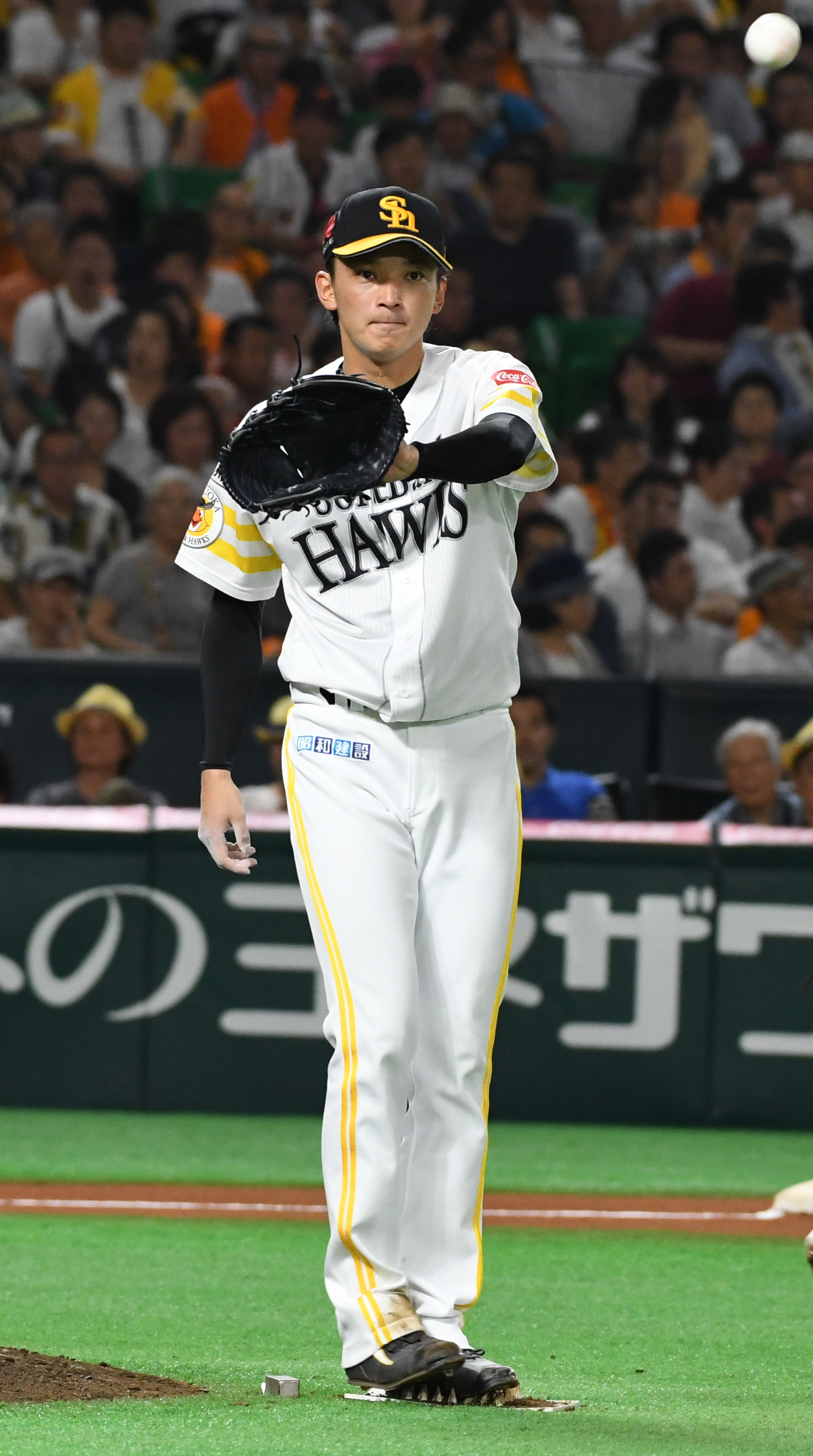 Nao Higashihama, pitcher of the Fukuoka SoftBank Hawks, at Fukuoka Dome